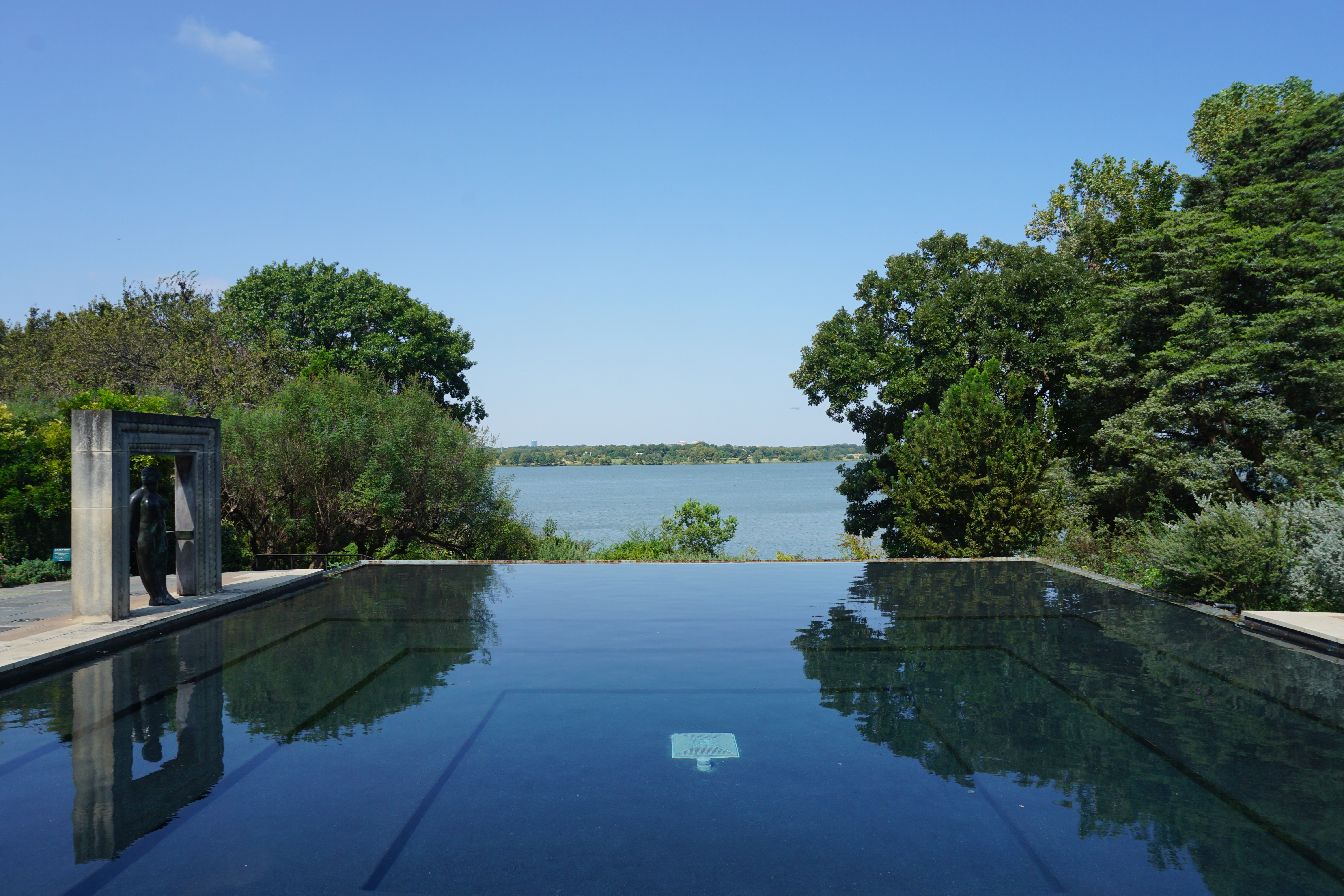 The A Woman's Garden Pool at the Dallas Arboretum and Botanical Garden in Dallas, Texas (United States).